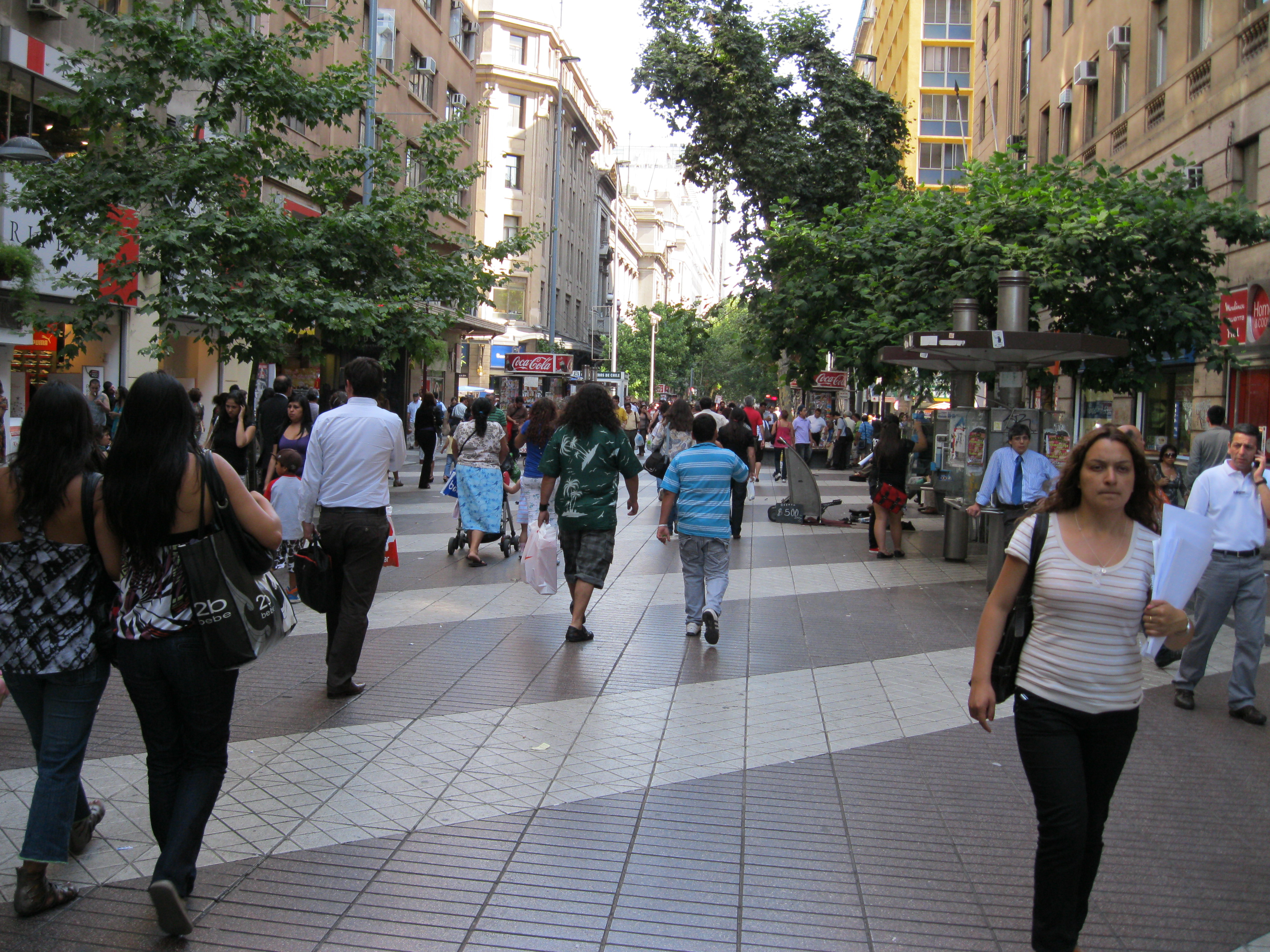 Paseo Ahumada